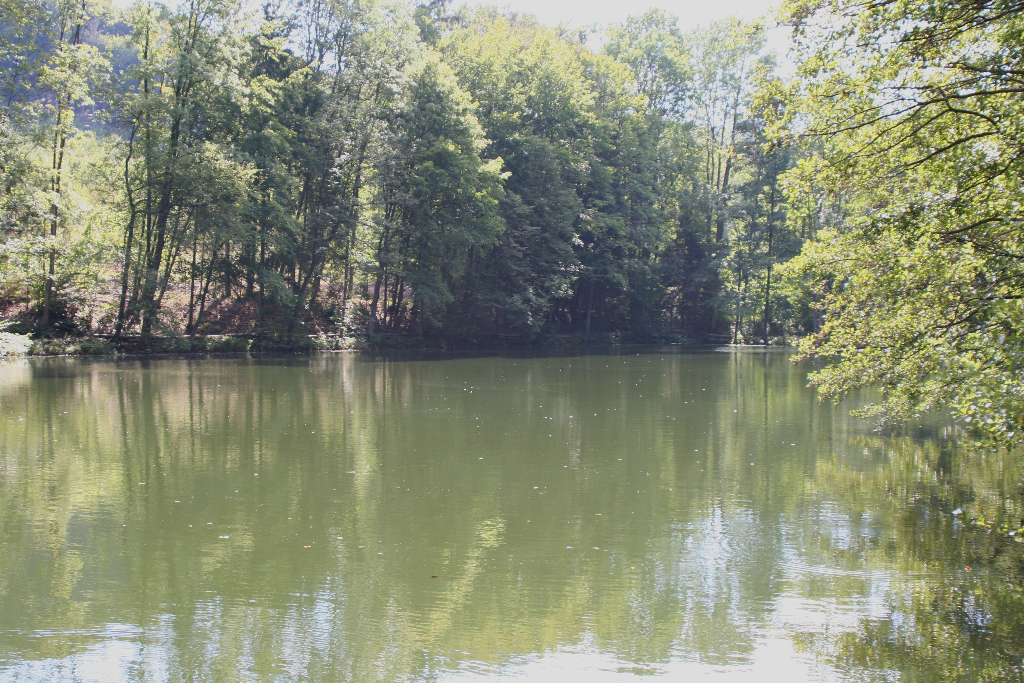 The Stadtsee (town lake) in Weinsberg